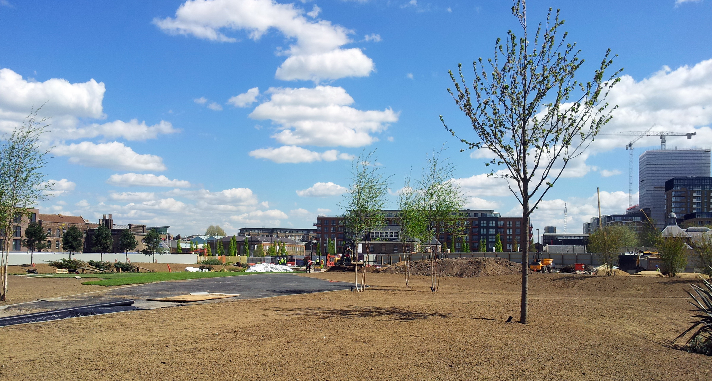 View of the newly developped park along Beresford Street in Royal Arsenal, Woolwich, South East London.